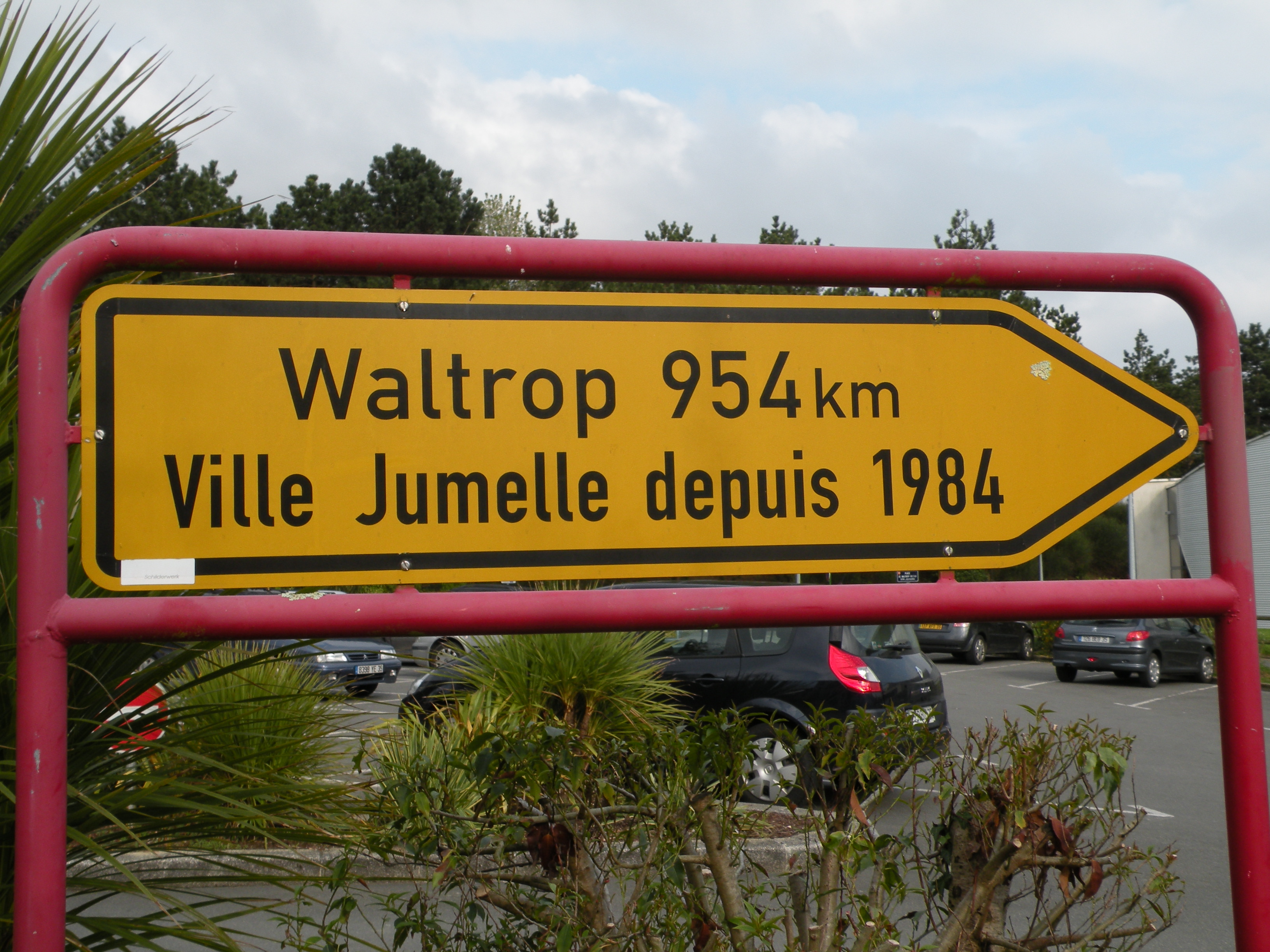 Sign road commemorating the twinning between Cesson-Sévigné and Waltrop.